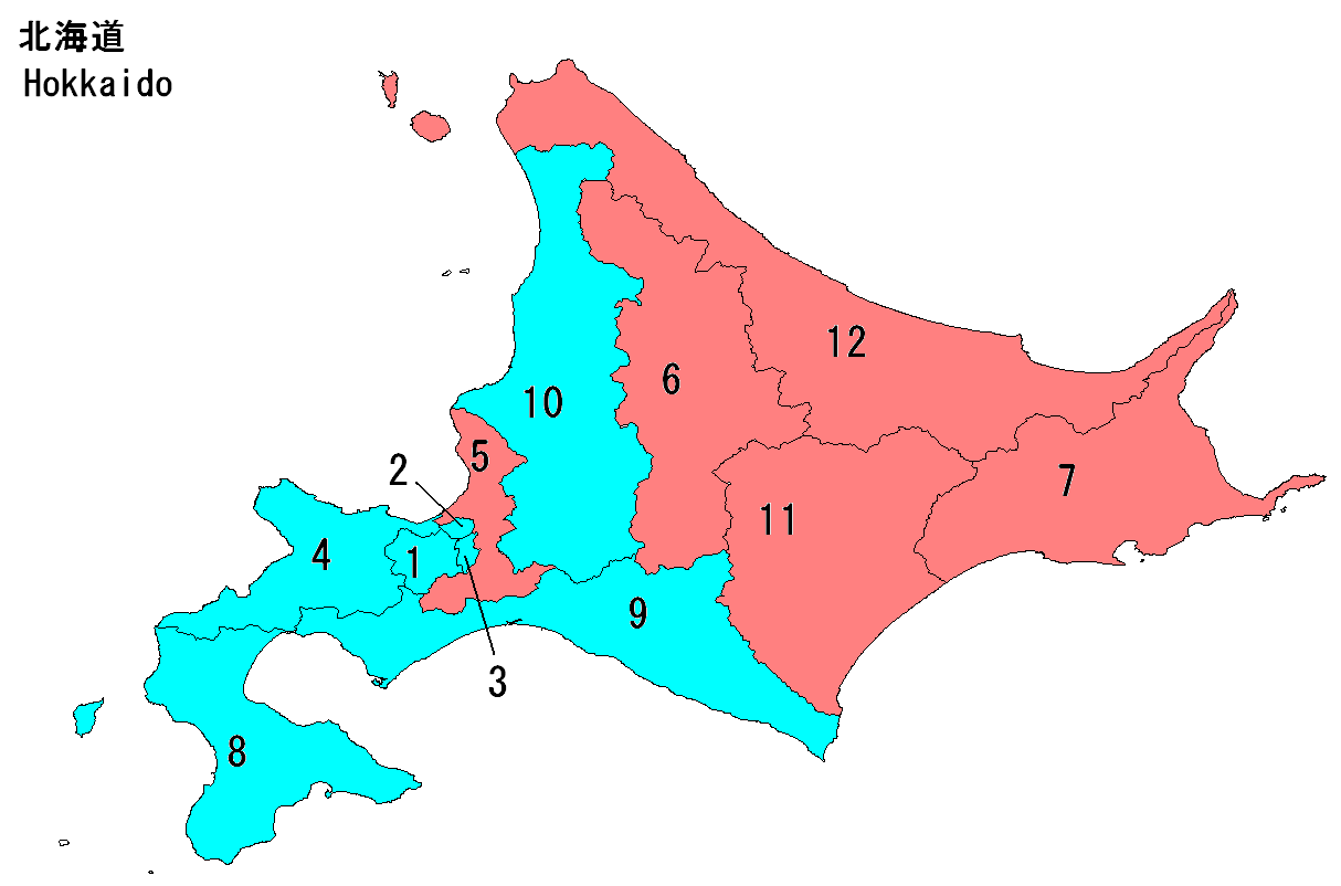 Presentation of the results of the Japan general election, 2003 in the single member districts of the Hokkaidō block, based on district boundary information in :ja:衆議院小選挙区一覧 and mapping tools provided by Japanese Wikipedia User Koba-chan. Boundary representations are not authoritative; in particular, this map does not include the Northern Territories claimed by both Japan and Russia and occupied by the latter, in which no voting took place; notionally these would be part of District 7. Color codes: LDP - red DPJ - light blue New Komeito - green SDP - purple New Conservative Party - dark blue Other/Independent - gray Some independent politicians joined major parties immediately after the election, and their districts are marked with a colored square around the number. This is also true for the members of the New Conservative Party, which was wholly subsumed into the LDP.